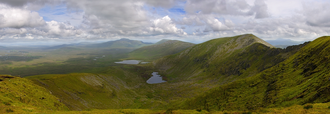 Mountains and blanket bog of Ballycroy National Park viewed from the Nephin Beg Range, County Mayo, Republic of Ireland